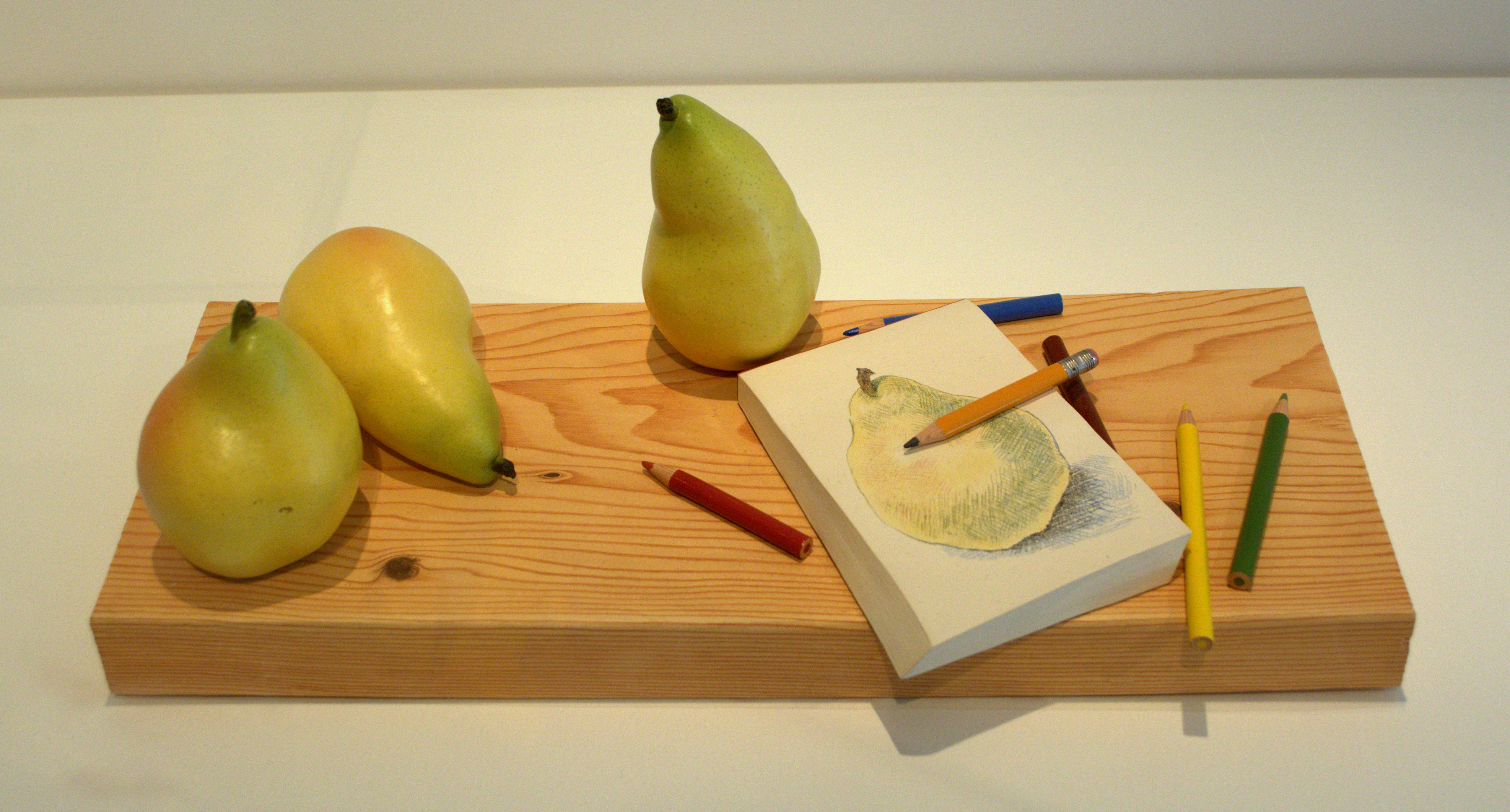 A Trio of Pears (1998-2001) by Canadian artist Karen Dahl. Low-fired clay with glaze, luster, and acrylic sealant. Gardiner Museum, Toronto.